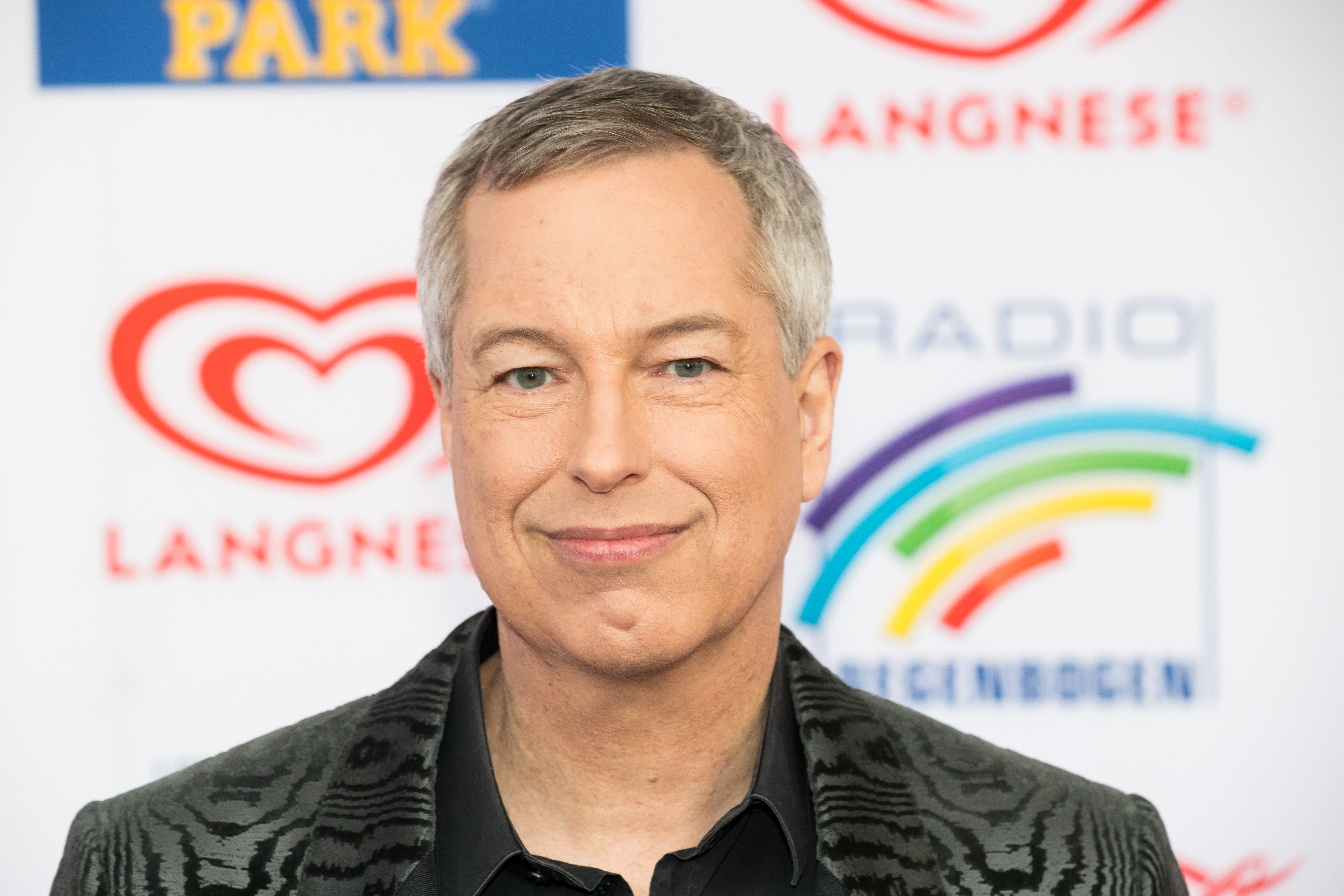 Thomas Hermanns during Radio Regenbogen Award 2019 at Europapark, Rust, Baden-Württemberg, Germany on 2019-04-12, Photo: Sven Mandel